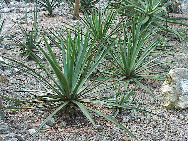 Species: Agave lechuguilla Family: Agavaceae Image No. 1